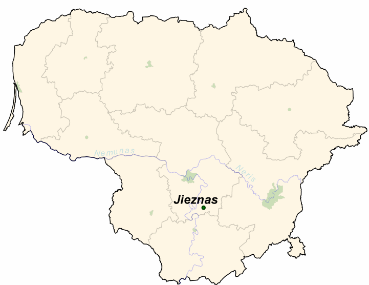 Jieznas on the map of Lithuania